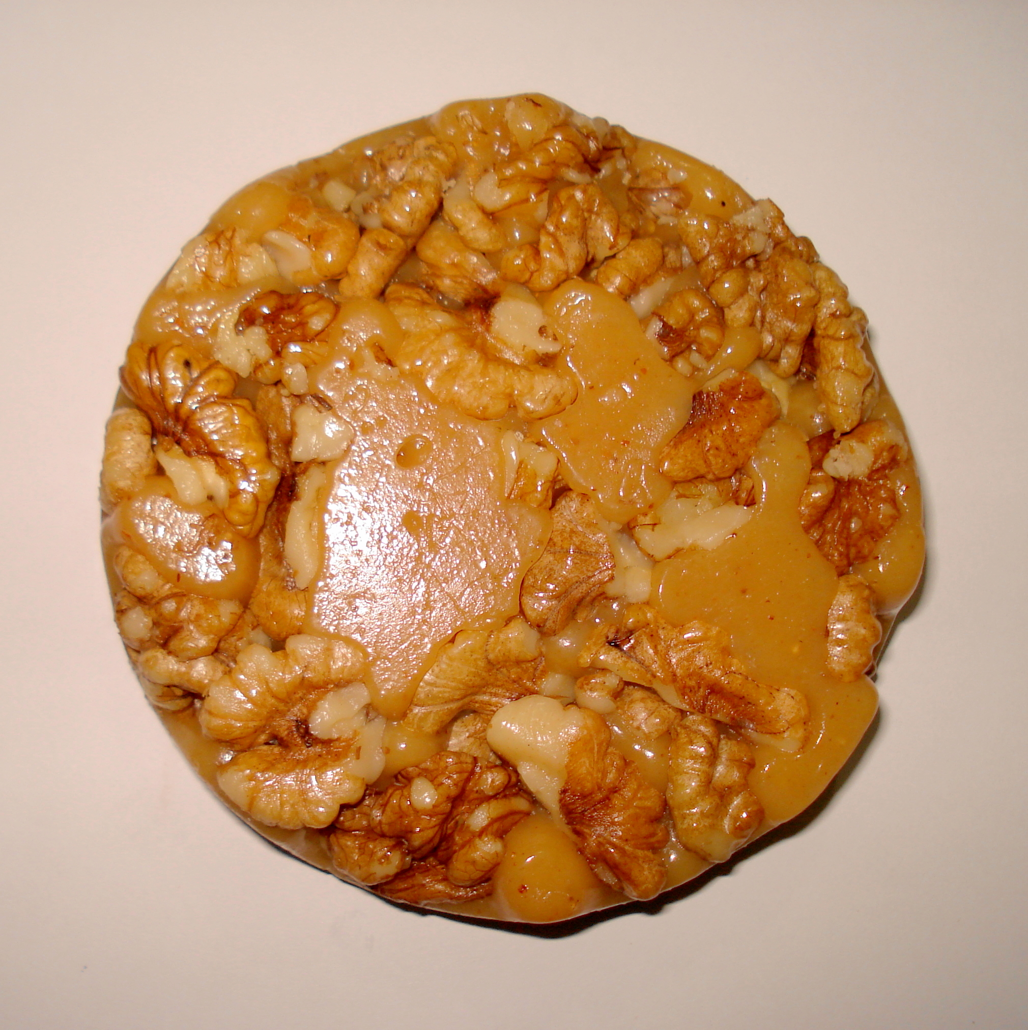 Sohan Halwa is a tasty candy like cruchy sweetmeat